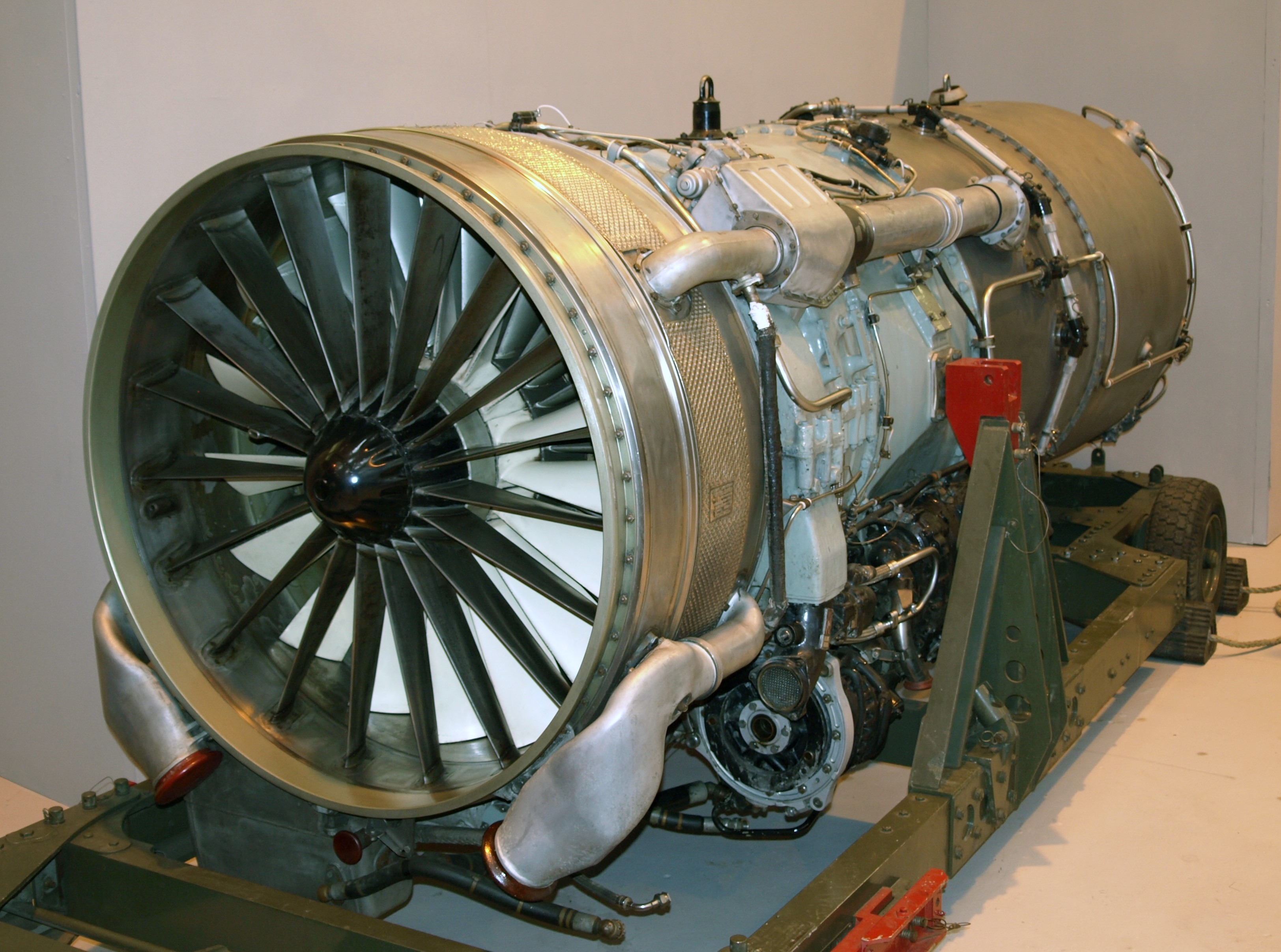 Rolls-Royce Conway RCo.17 Mk201 turbofan engine at the Royal Air Force Museum, Cosford.